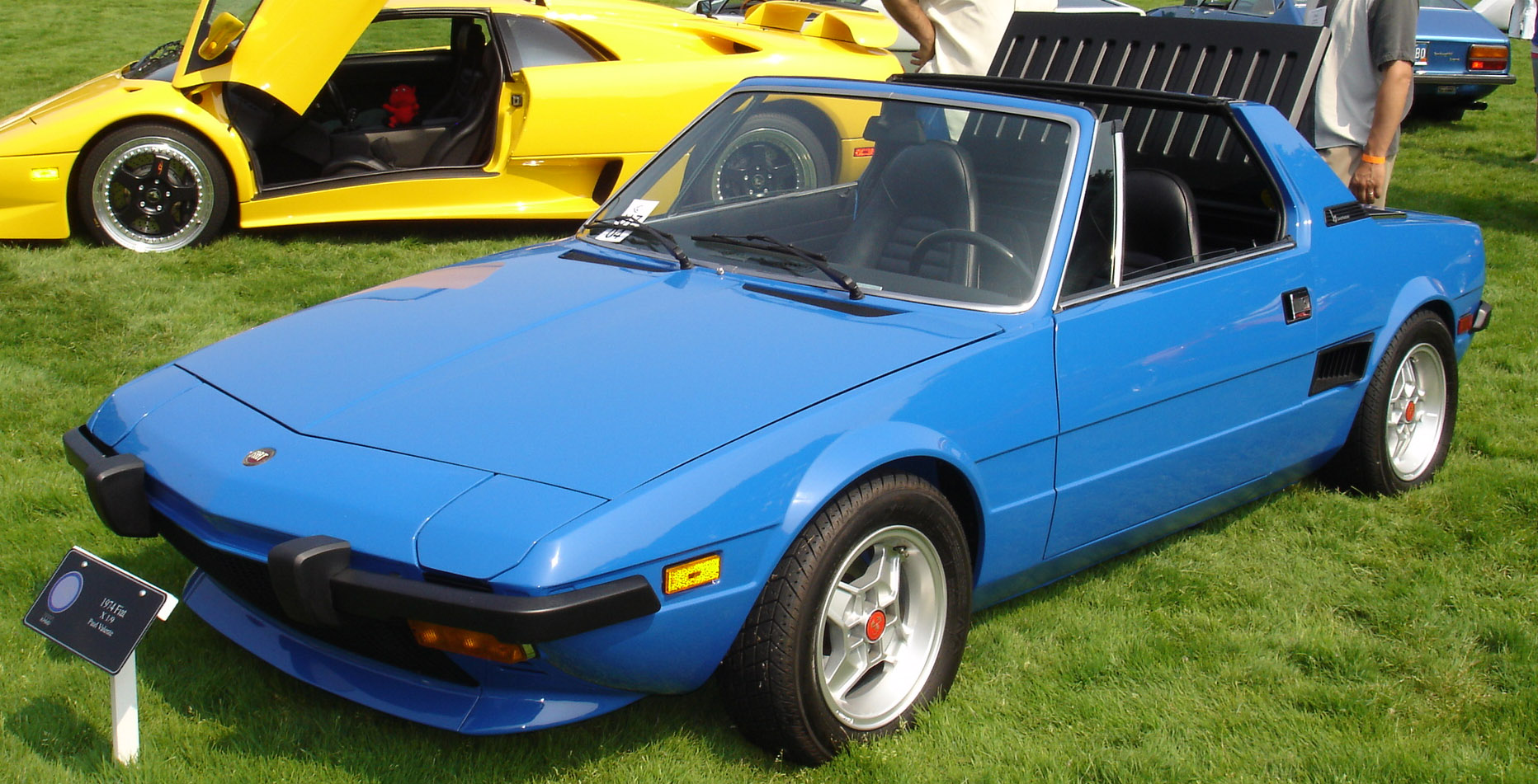 1974 Fiat X1/9 belonging to a Michigan owner. US spec.